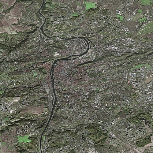 Prague by SPOT Satellite